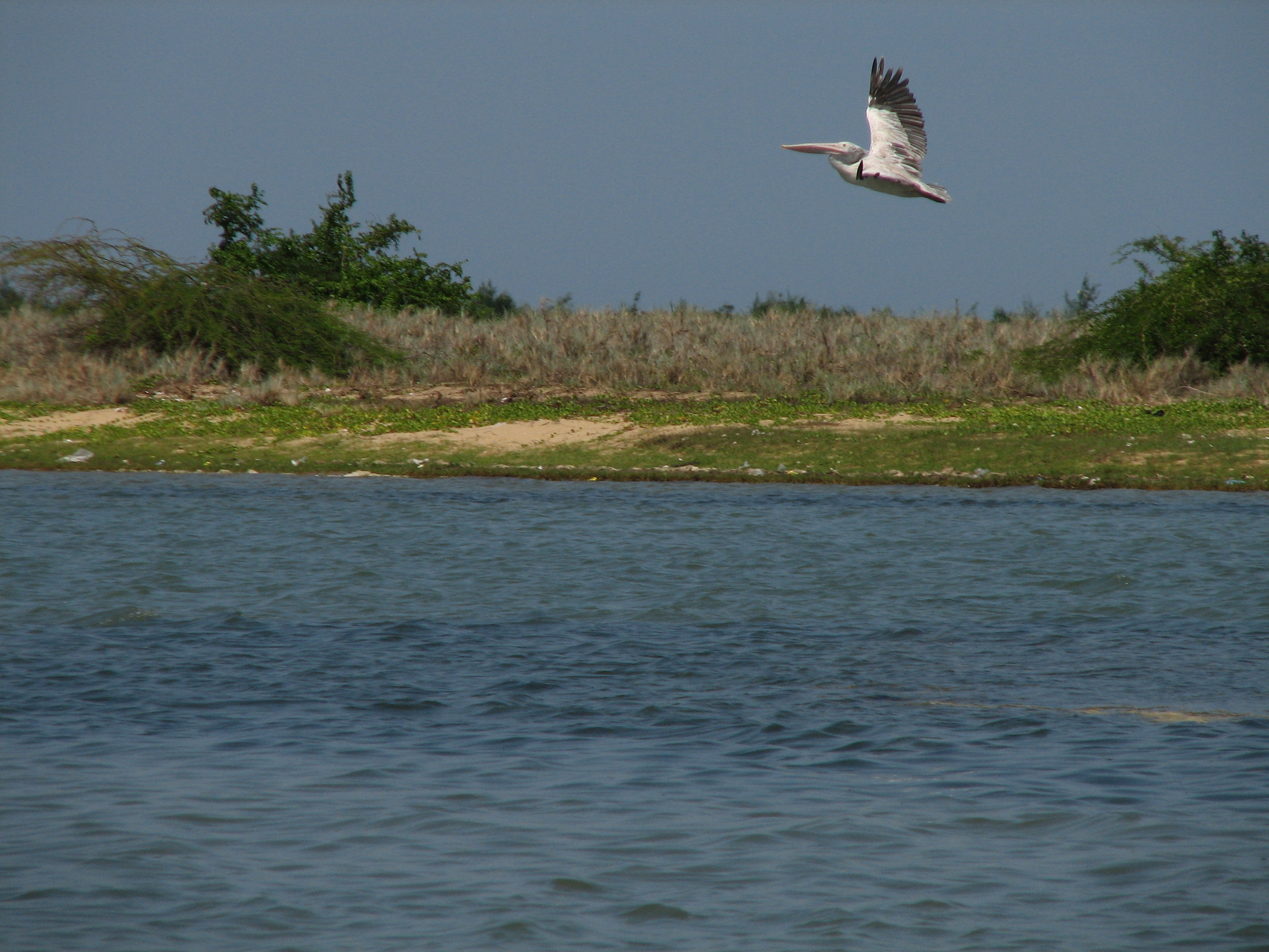 Spotted Pelican at Pulicat Lake, Tamil Nadu, India